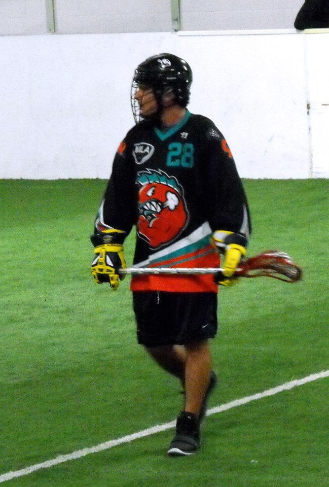 These are images of Continental Indoor Lacrosse League action during the 2014 season and are taken by Devan Mighton.